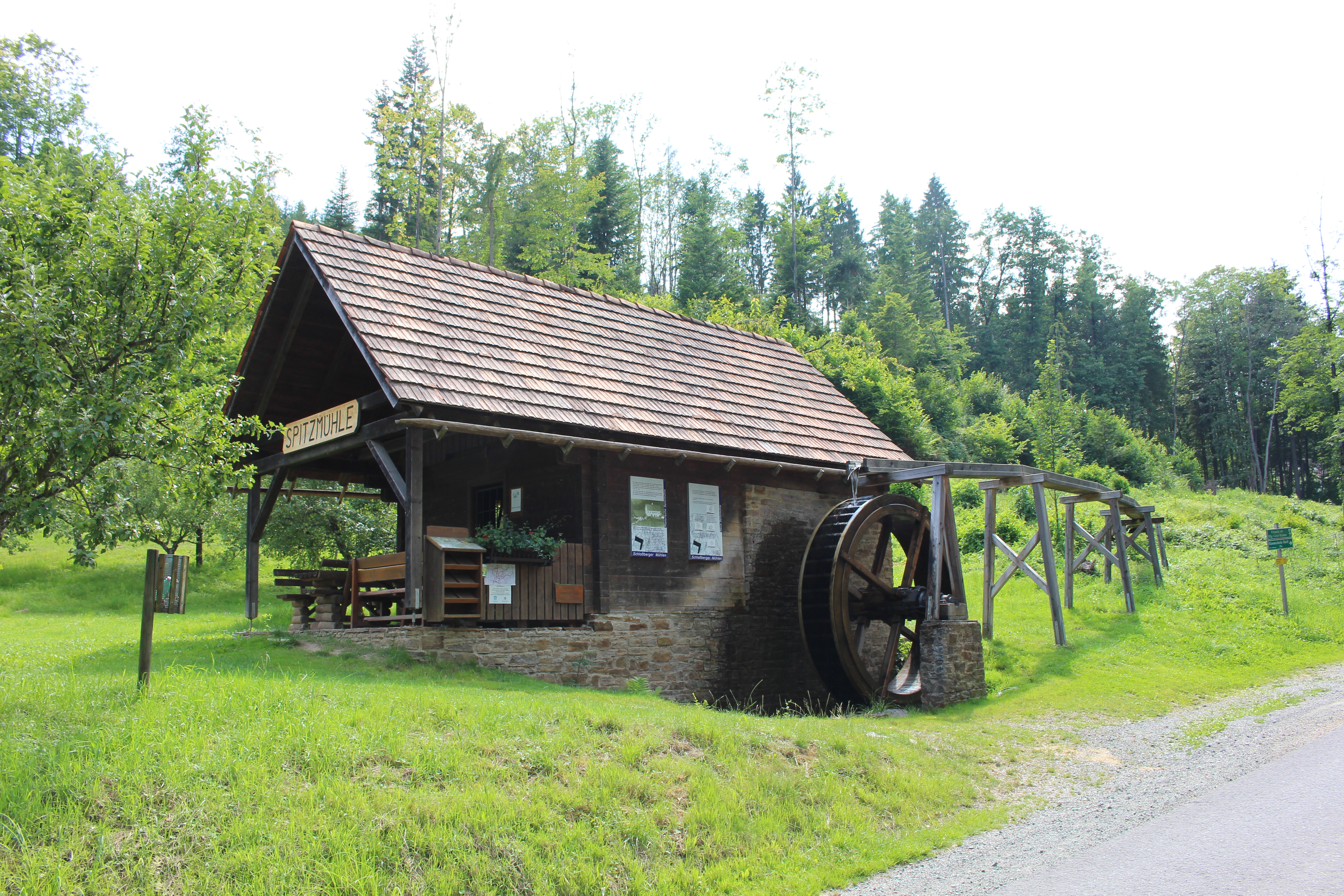 Heiligengeistklamm is a ravine near Leutschach, Styria/Austria